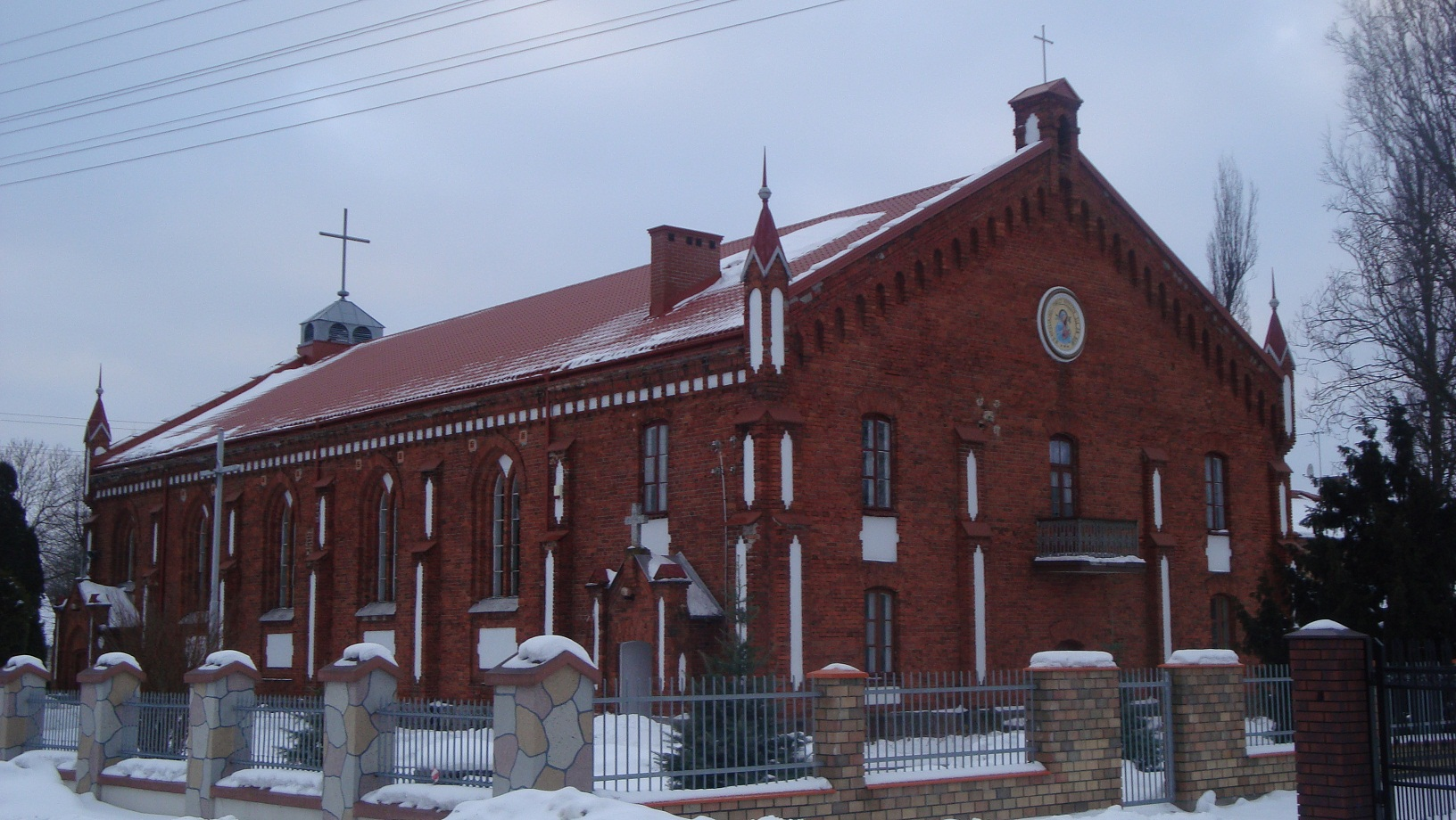 Saint Trinity Old Catholic Mariavite Church in Wisniew, Poland